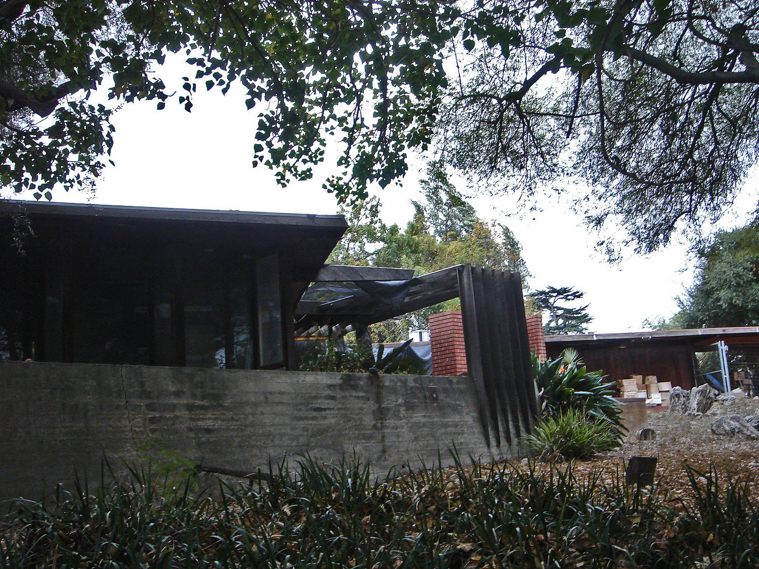 A house that's being renovated and behind a fence is difficult to capture, but this was the best one I got.